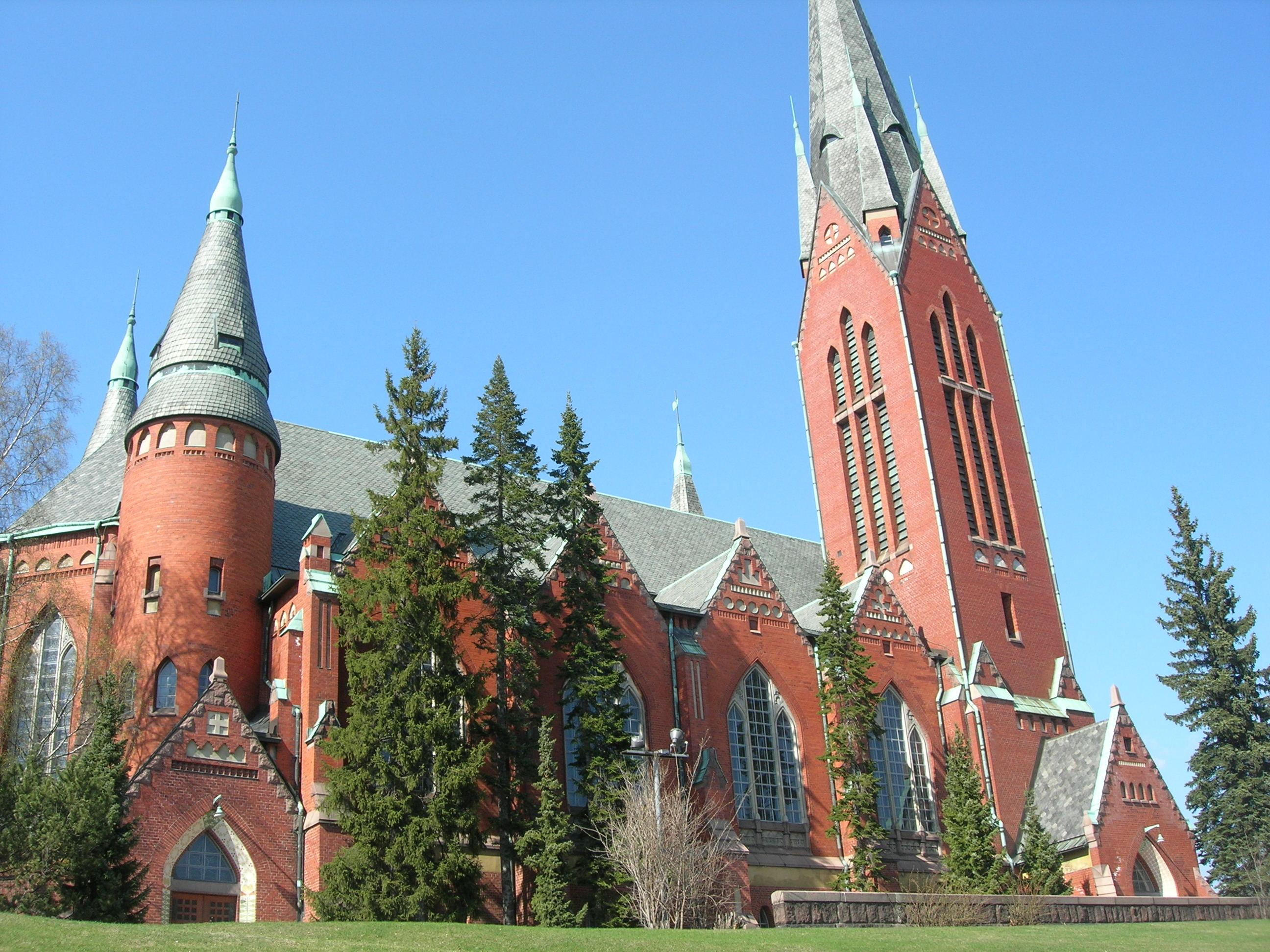 St. Michael's Church in Turku, Finland